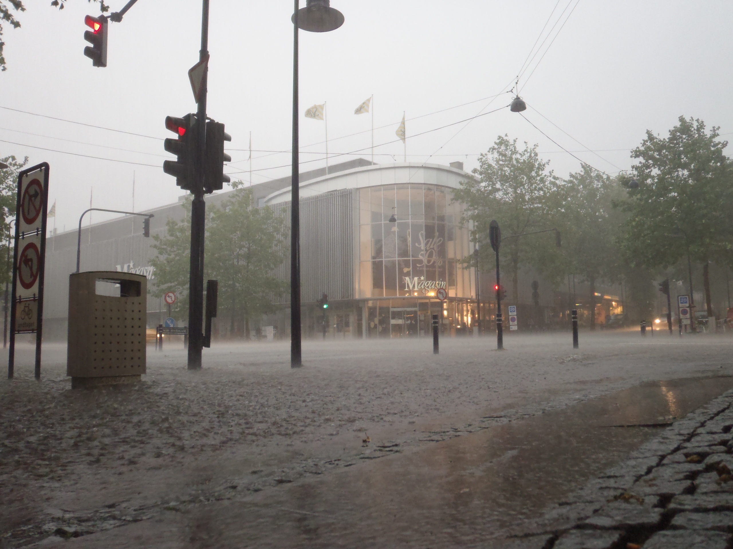 Lyngby Hovedgade at Magasin with heavy rain.